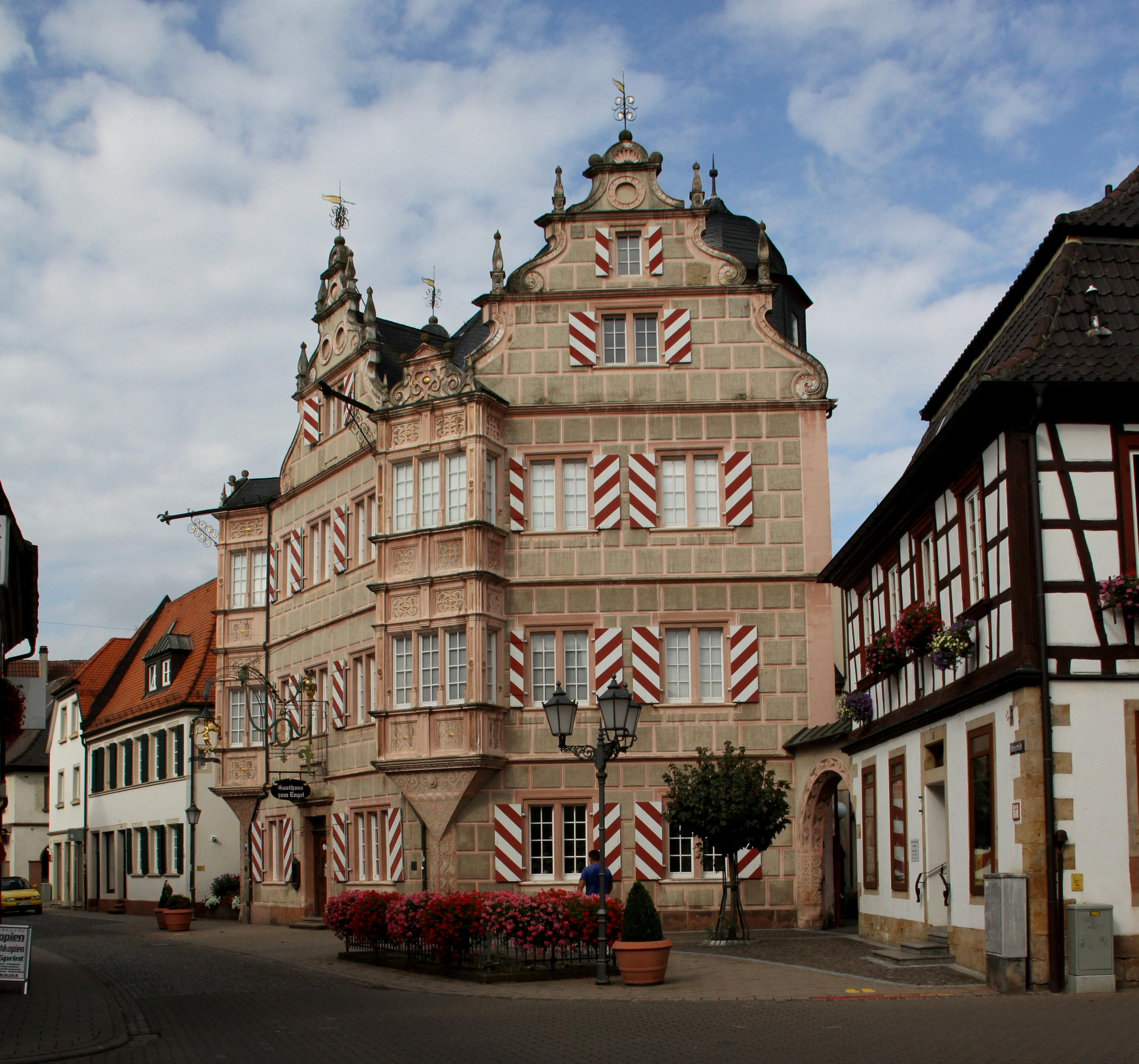 Cultural heritage monument in Bad Bergzabern